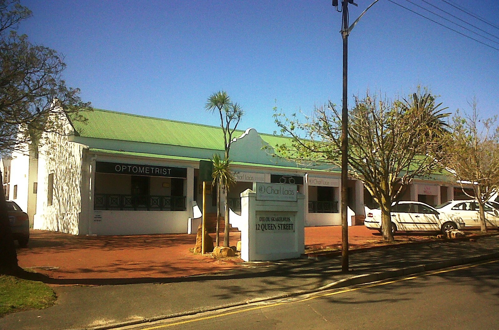 This Cape Dutch terrace is used as offices and surgeries (as on 25 September 2012). This media shows a South African Protected Site with SAHRA file reference 9/2/012/0022.